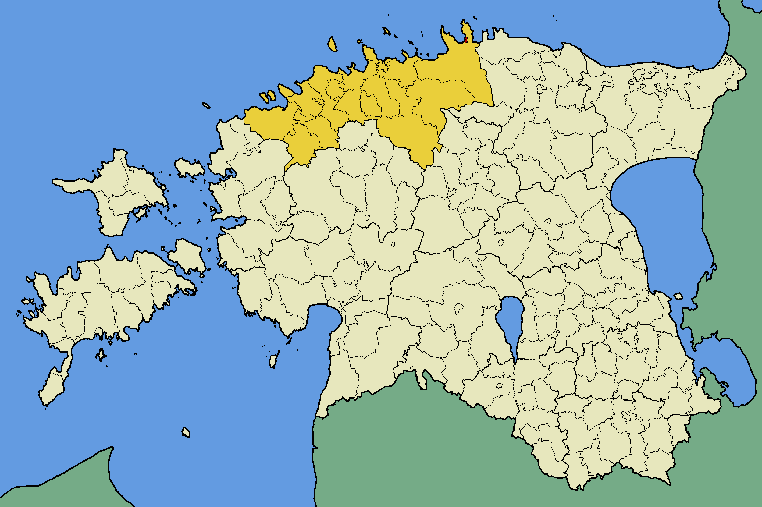 Map of Estonia with borders of municipalities (parishes). Harju county and Loksa town municipality emphasized.